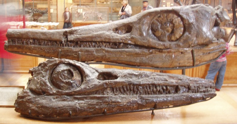 Skulls of Temnodontosaurus burgundiae, an ichthyosaur.